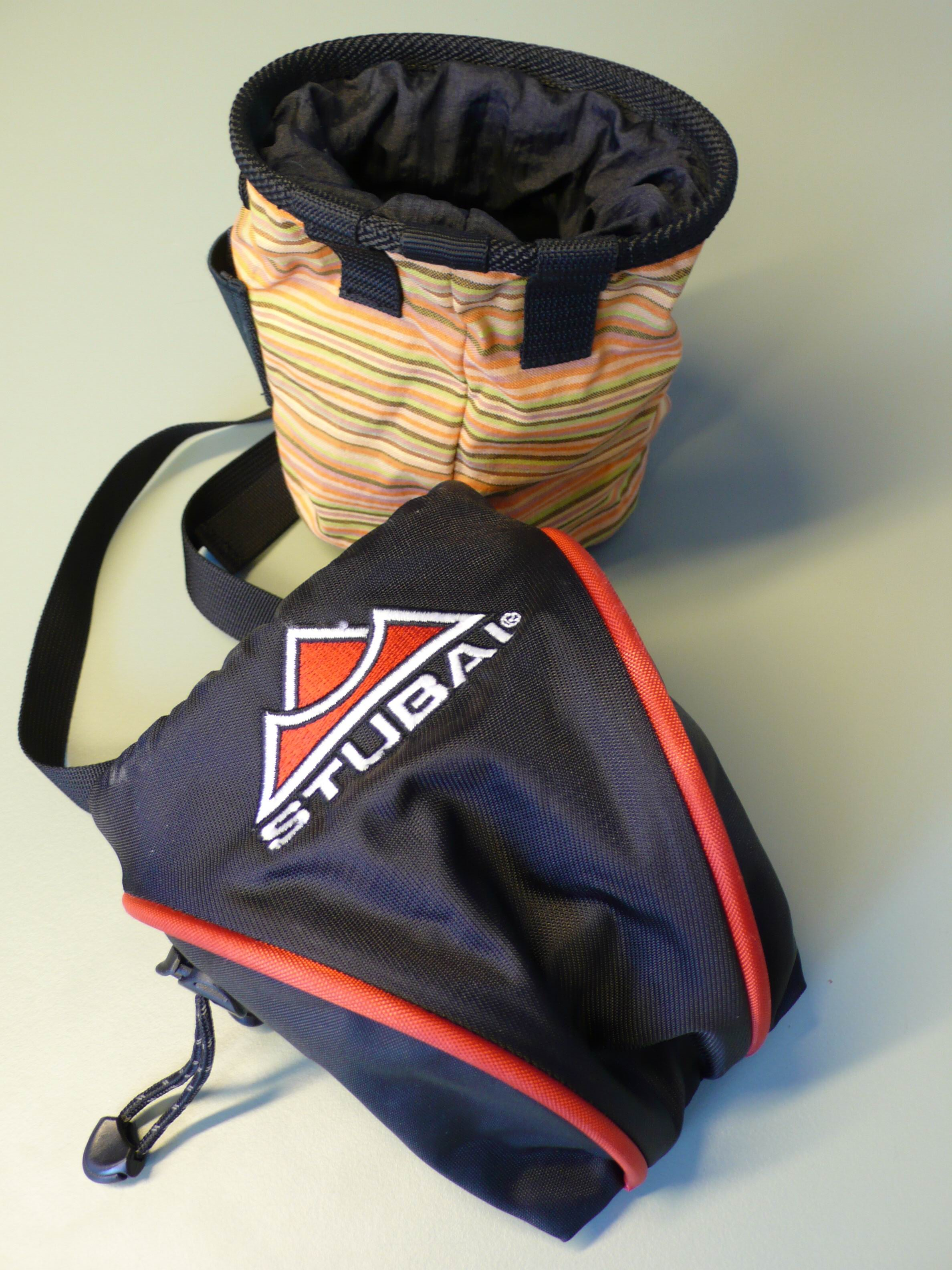 Two different chalkbags